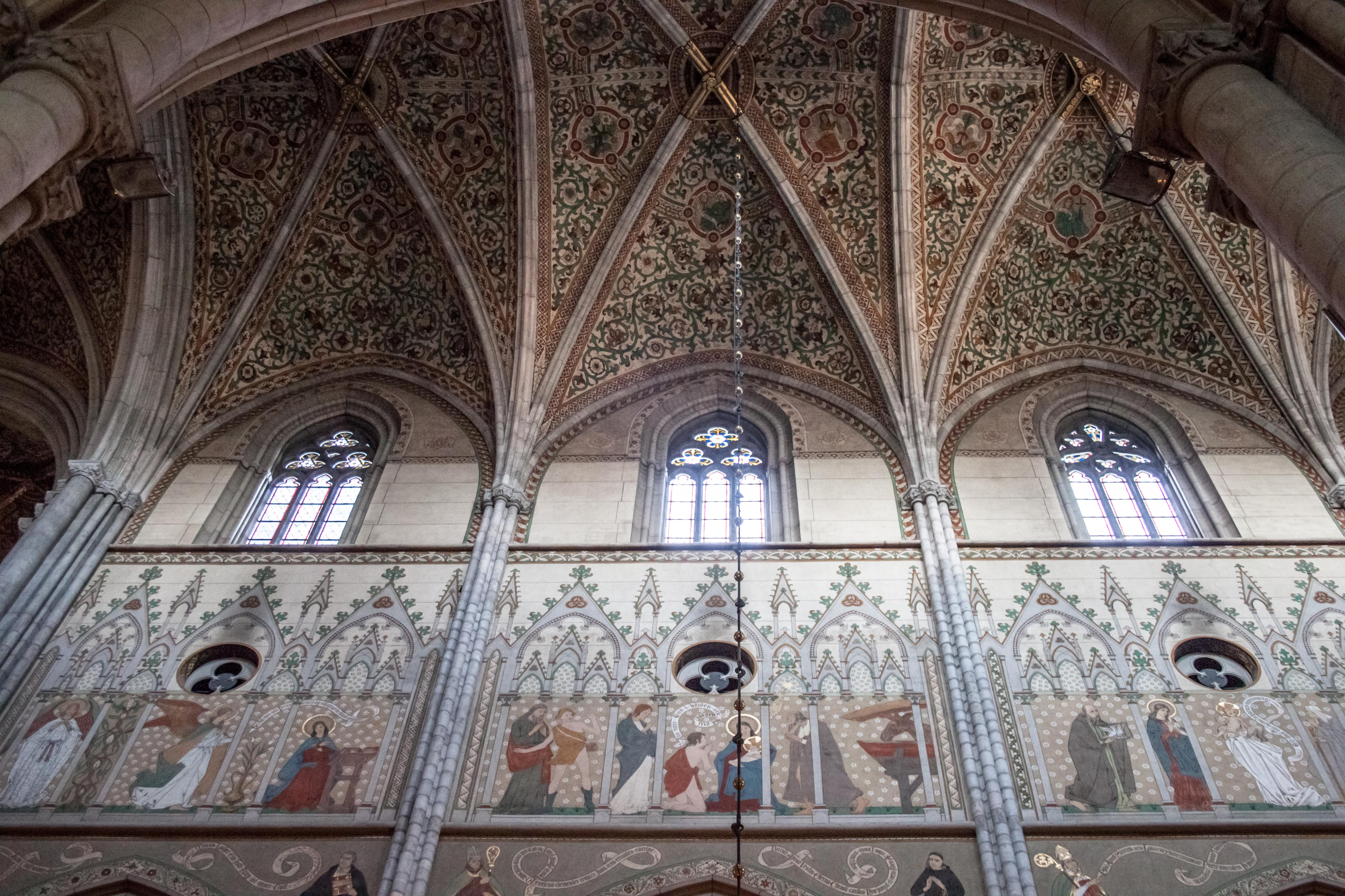 Uppsala cathedral